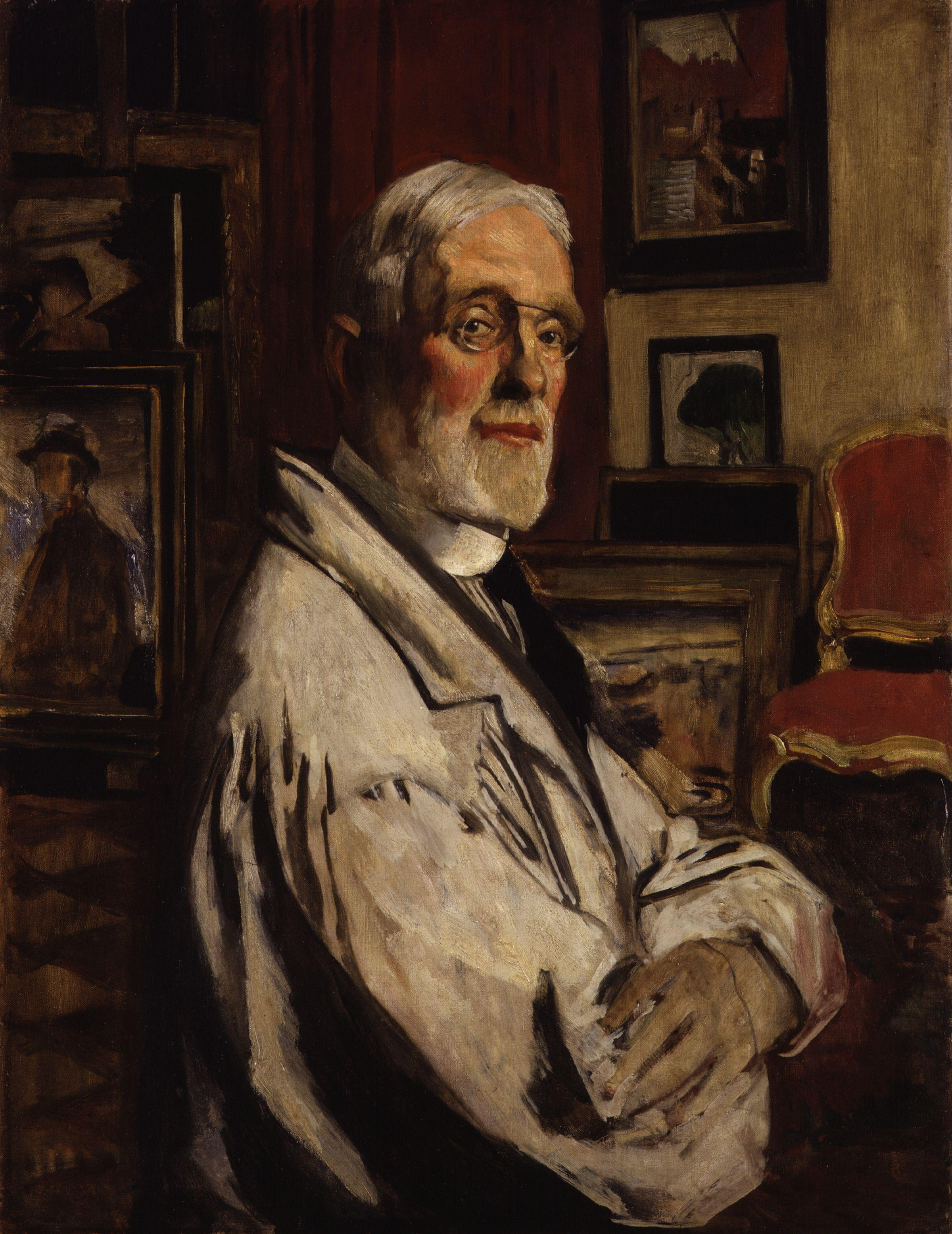 Maurice William Greiffenhagen, by Maurice William Greiffenhagen (died 1931). All images in this batch have been confirmed as author died before 1939 according to the official death date listed by the NPG.